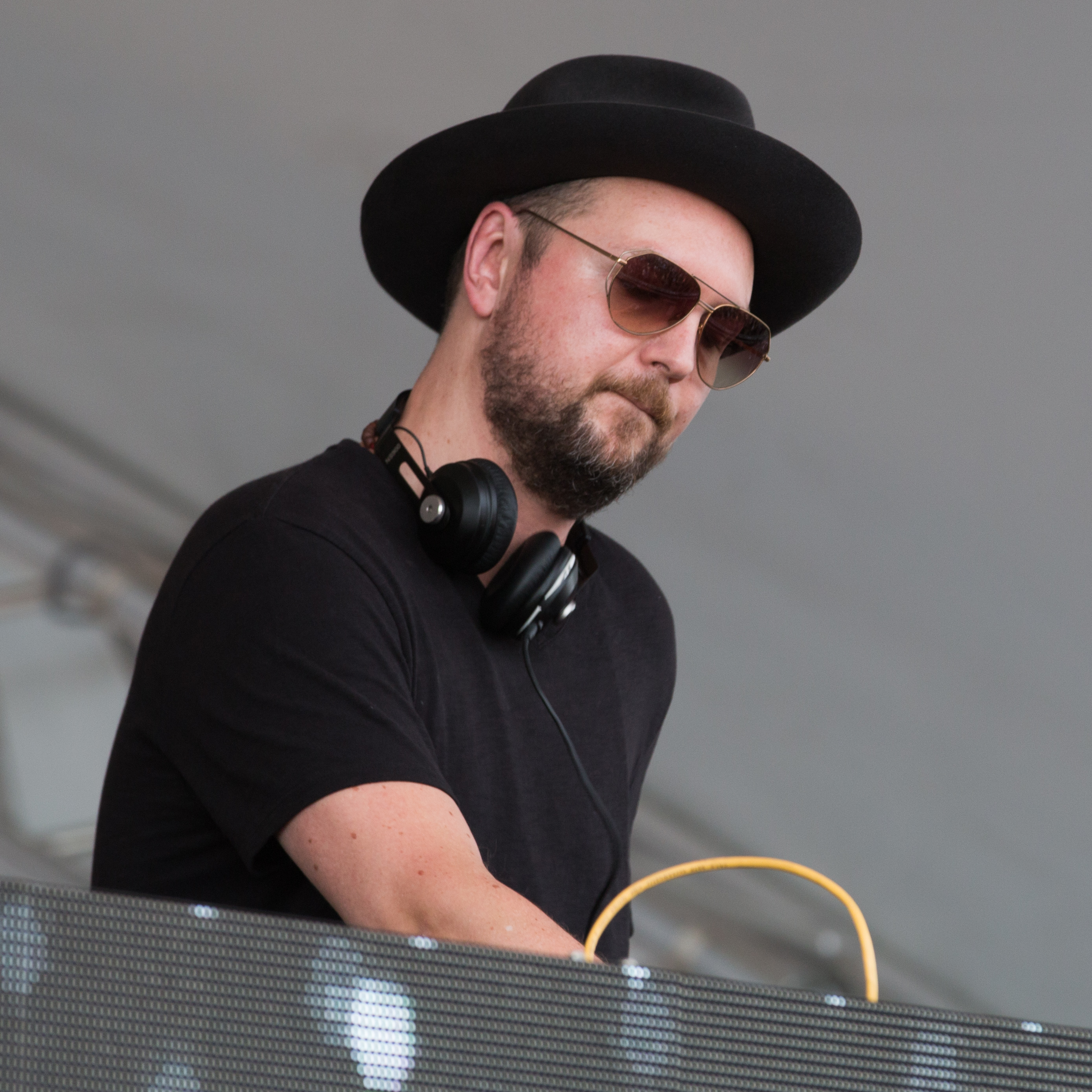 Kölsch at the Sea You Festival in Freiburg im Breisgau on July 19th, 2015.